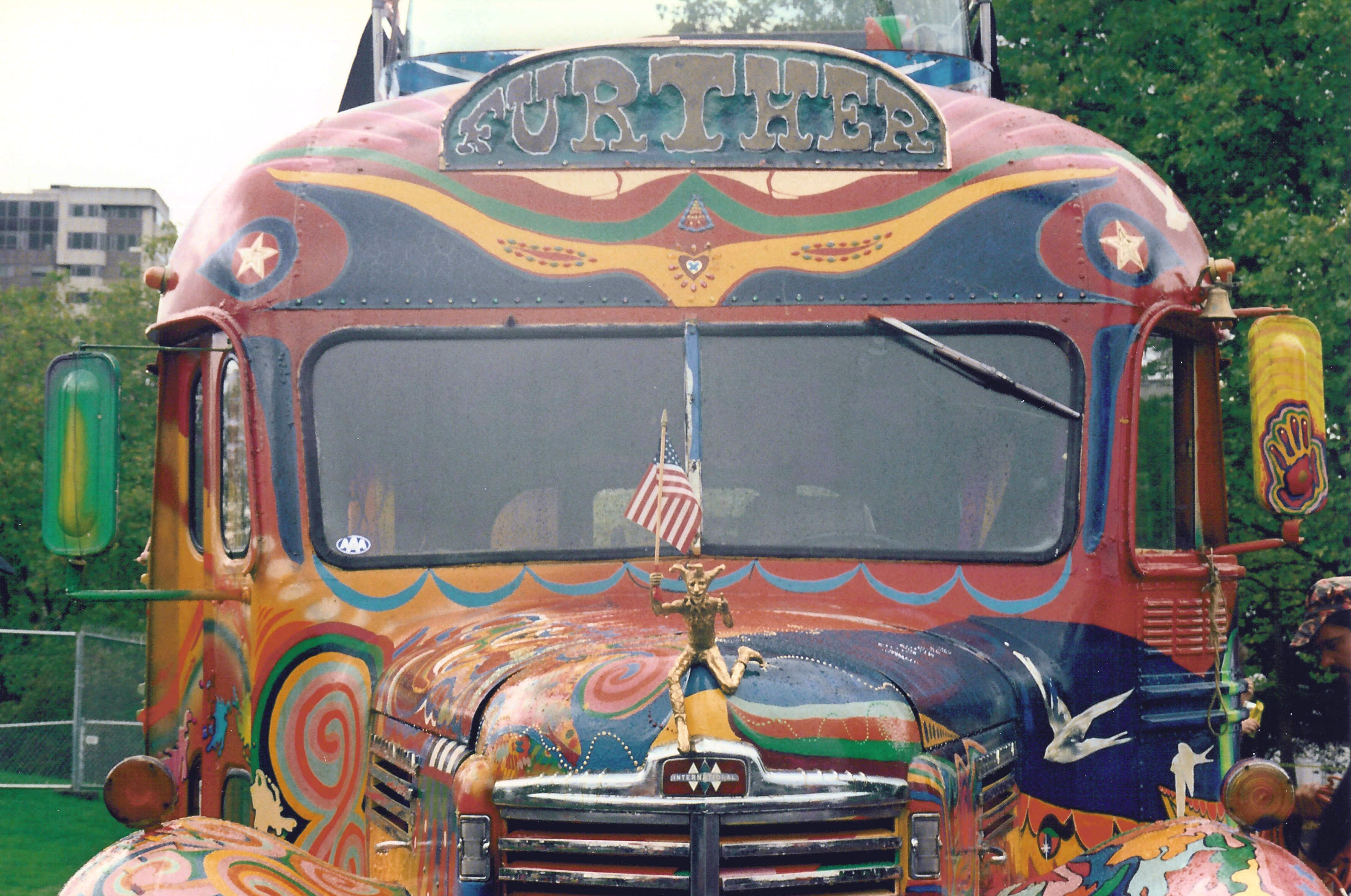 "Further" (also known as "Furthur"), Ken Kesey and the Merry Pranksters' famous bus, Bumbershoot festival, Seattle, Washington, 1994. This is the second of the two buses by this name.